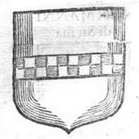 Incorrect version of the Coat of Arms of the House of Hauteville (fess instead of bend). Engraving from Annali della felice citta di Palermo prima sedia, corona del re, e capo del Regno di Sicilia by Agostino Inveges